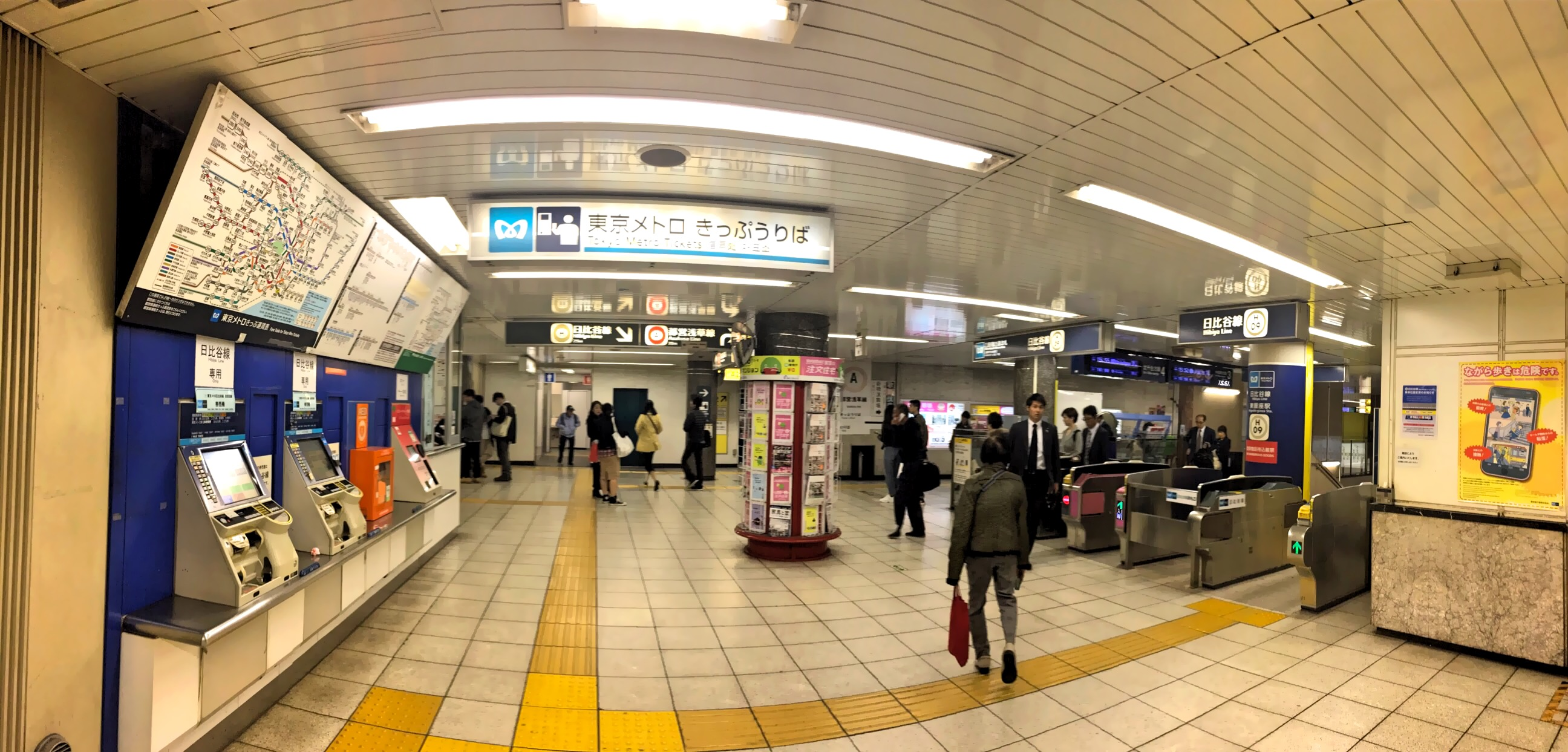 東銀座駅の改札 (Higashi-Ginza Station ticket gates)